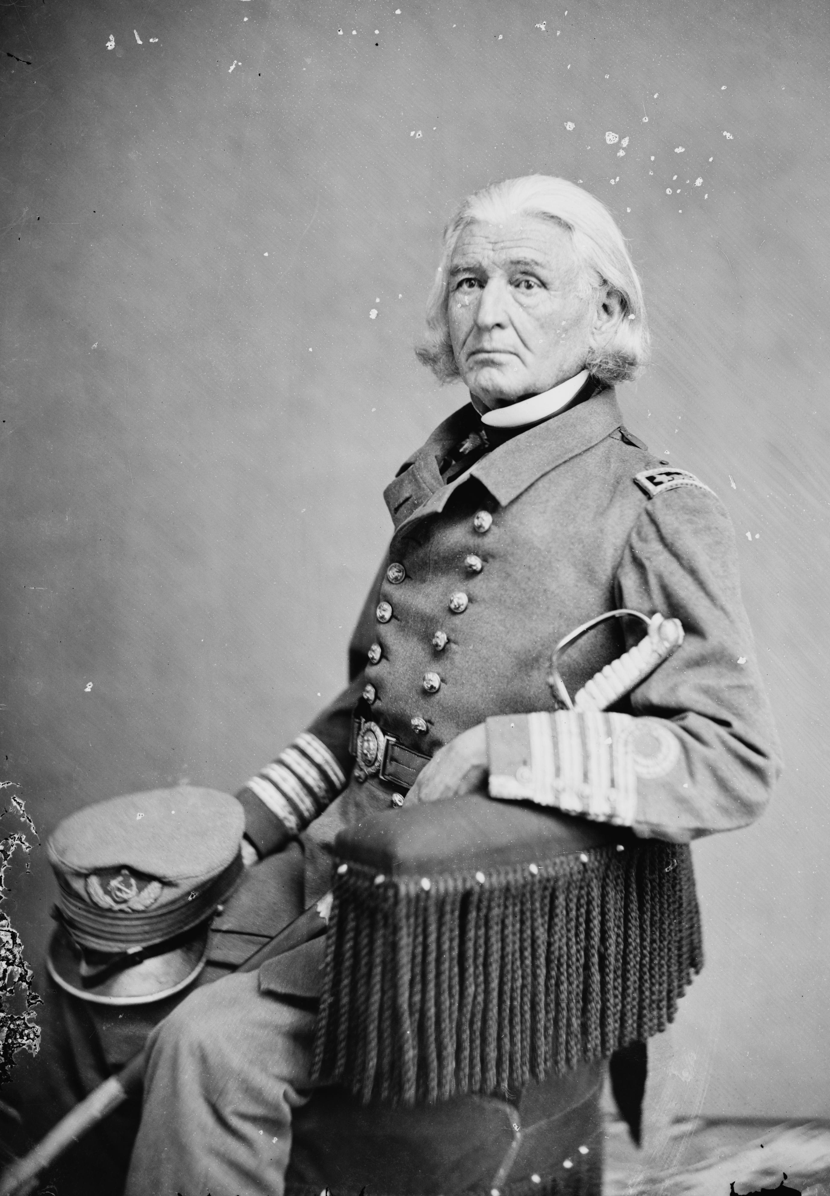 French Forrest (1796-1866). Library of Congress description: "Capt. French Forrest, C.S.N."